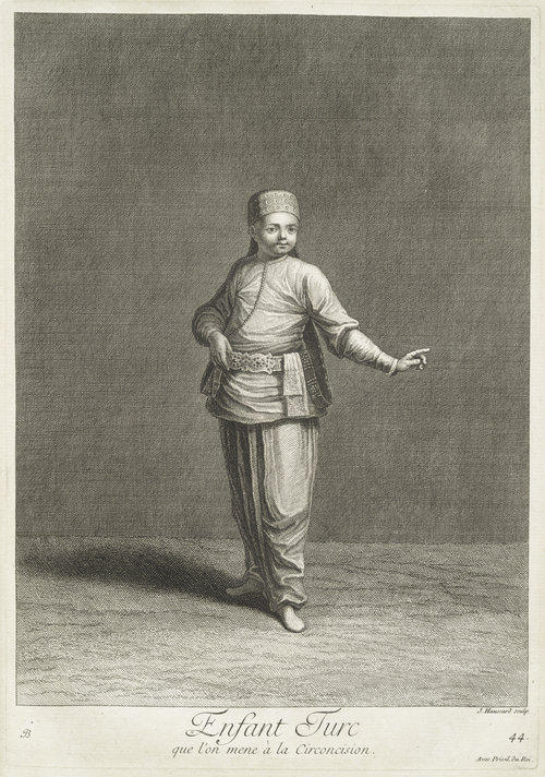 Illustrations of Ottomans by Jean-Baptiste Vanmour, 1707